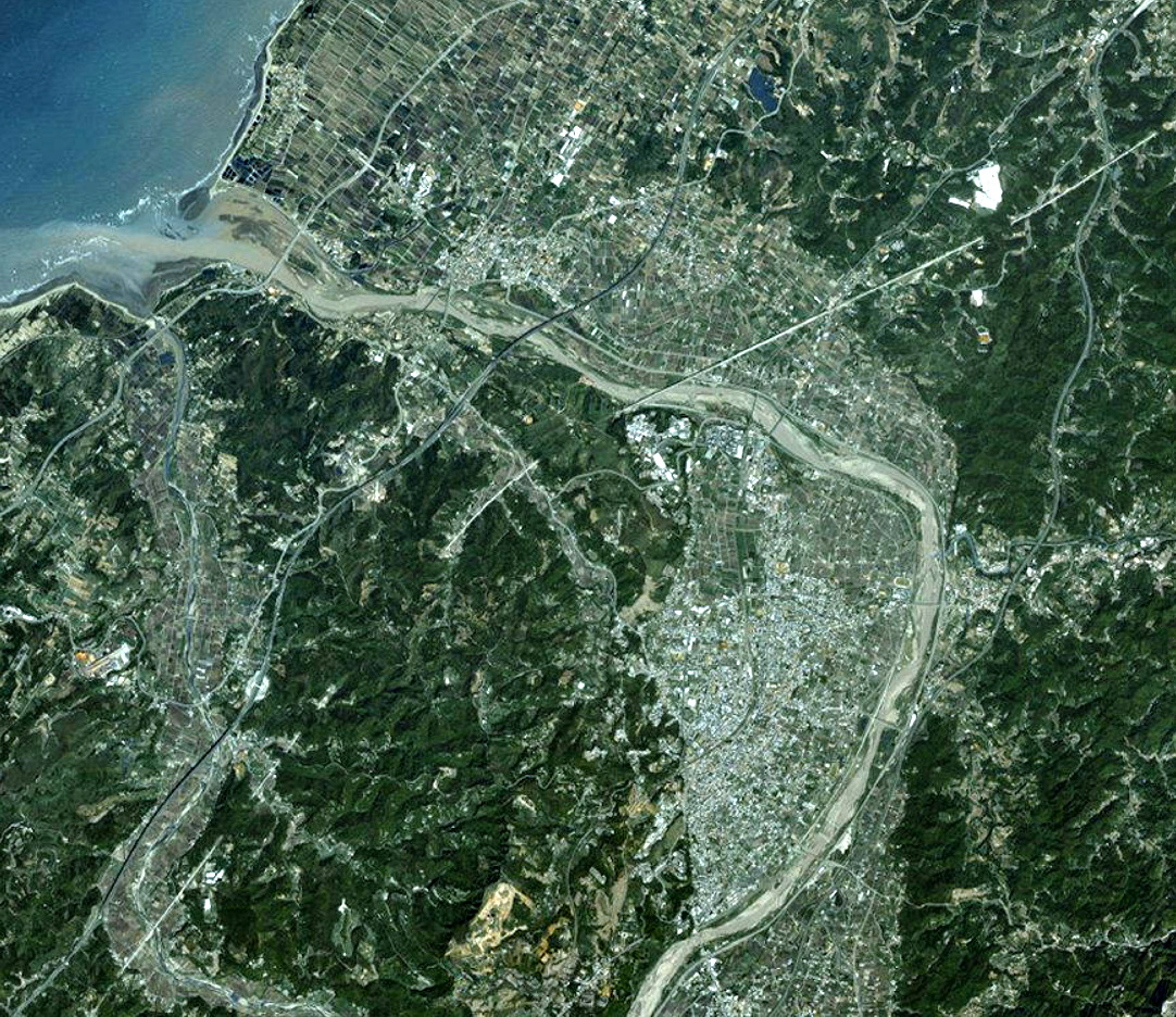 Taiwan, Houlong township : the Houlong river.